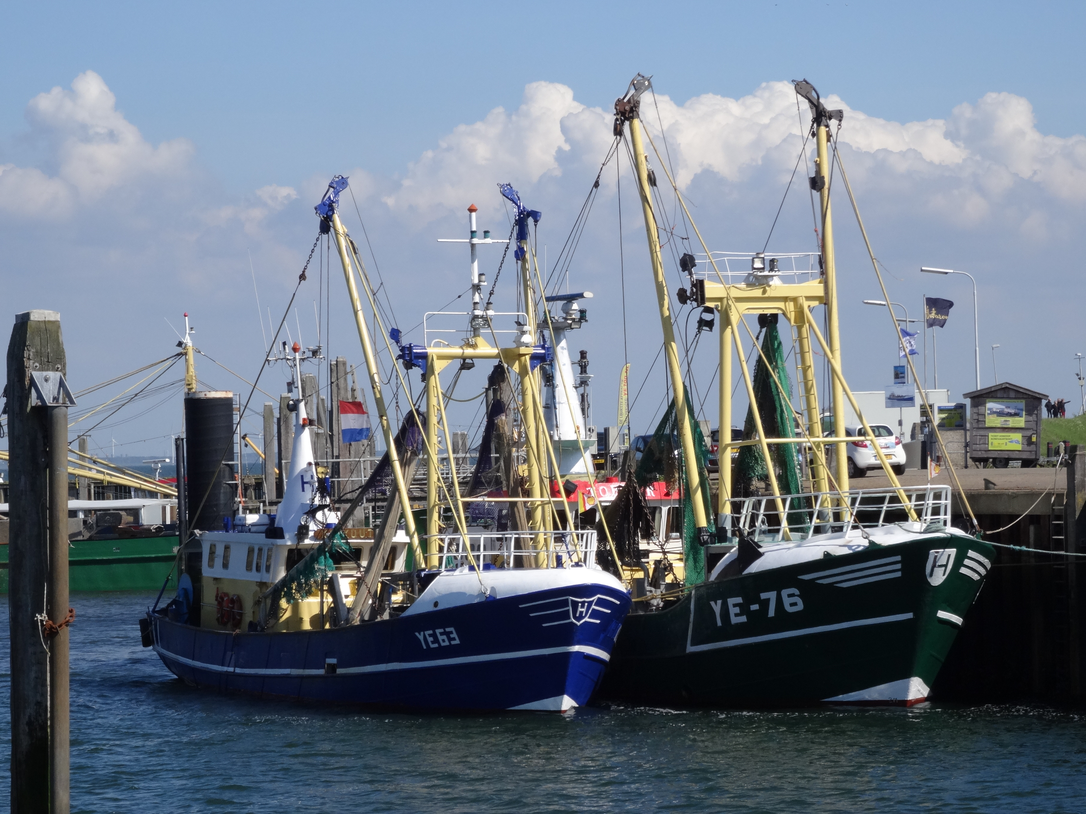 Ships for fishing mussels in the post of Yerseke, the Netherlands.